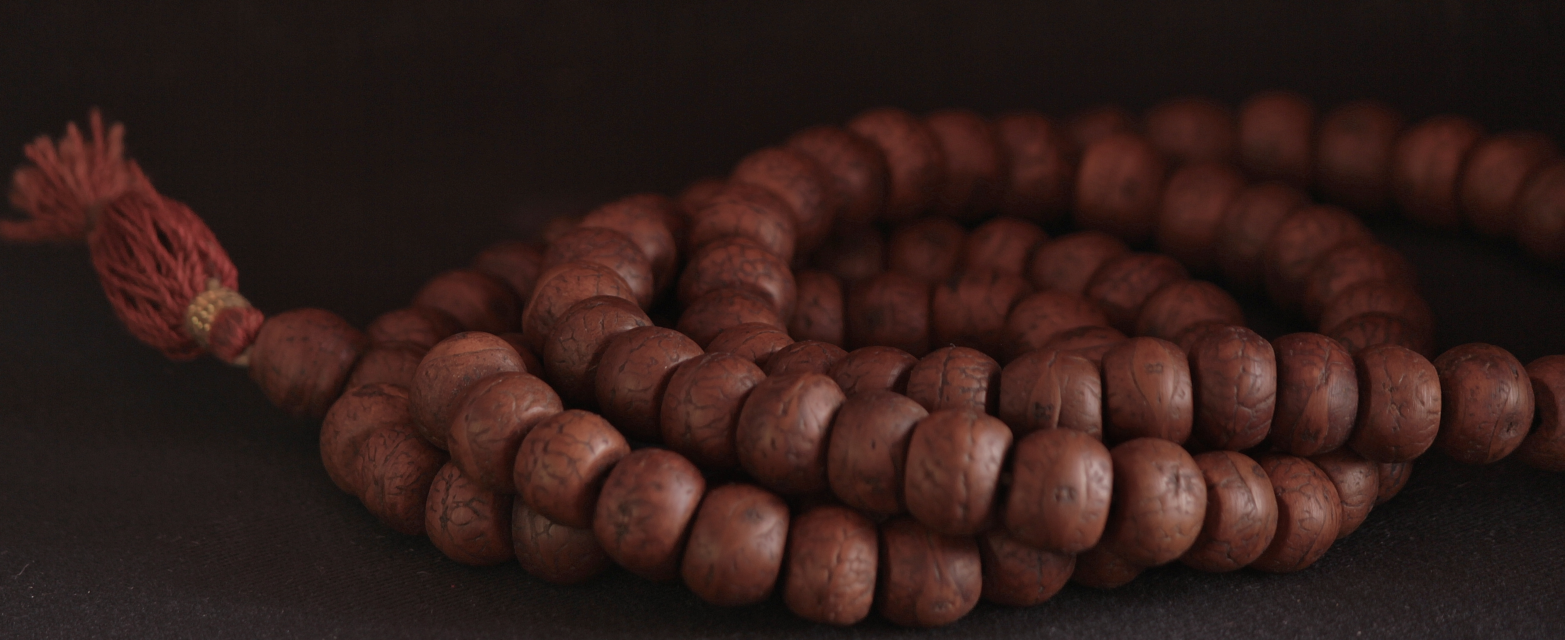 Buddhist wooden rosary